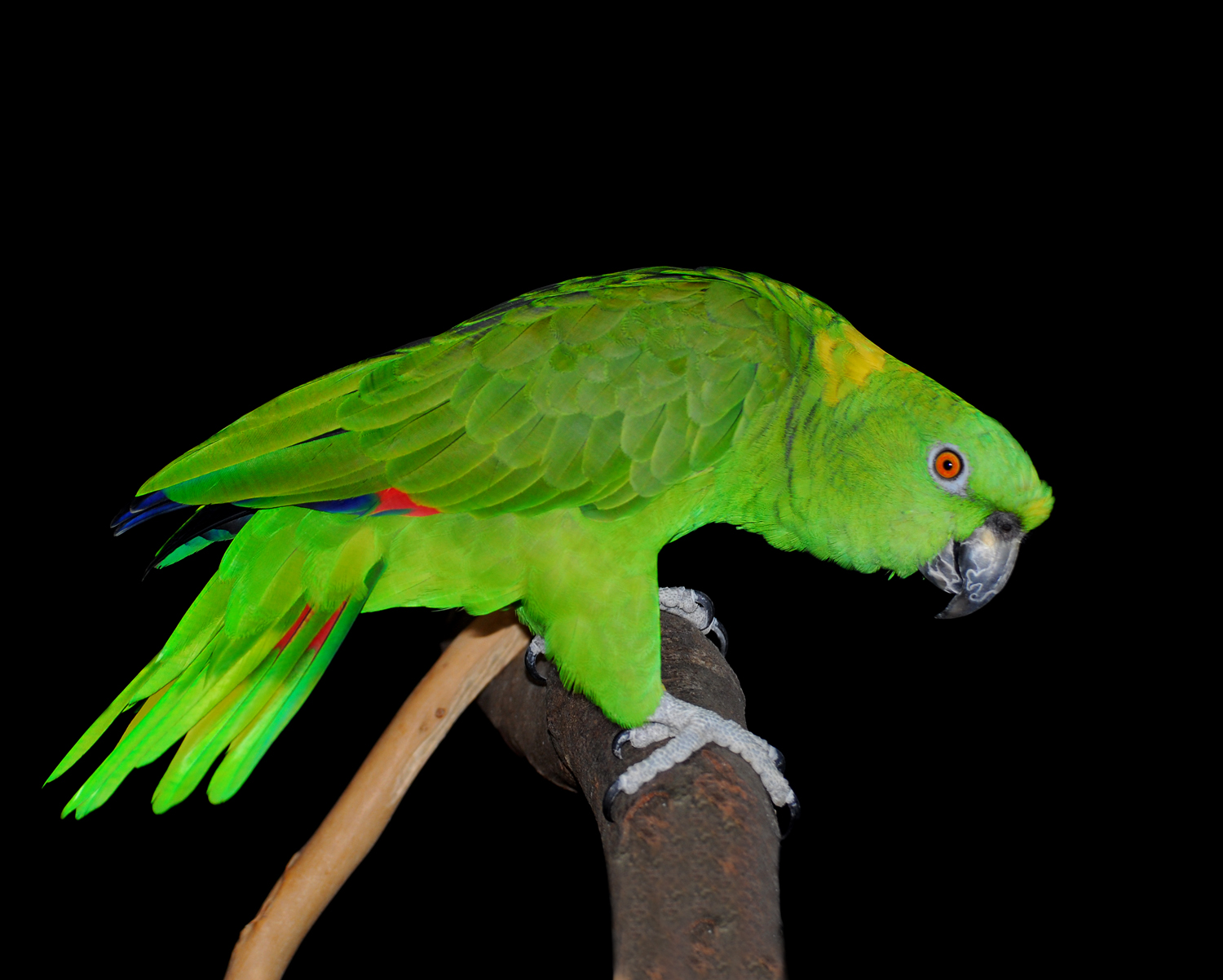 Yellow naped Amazon parrot.